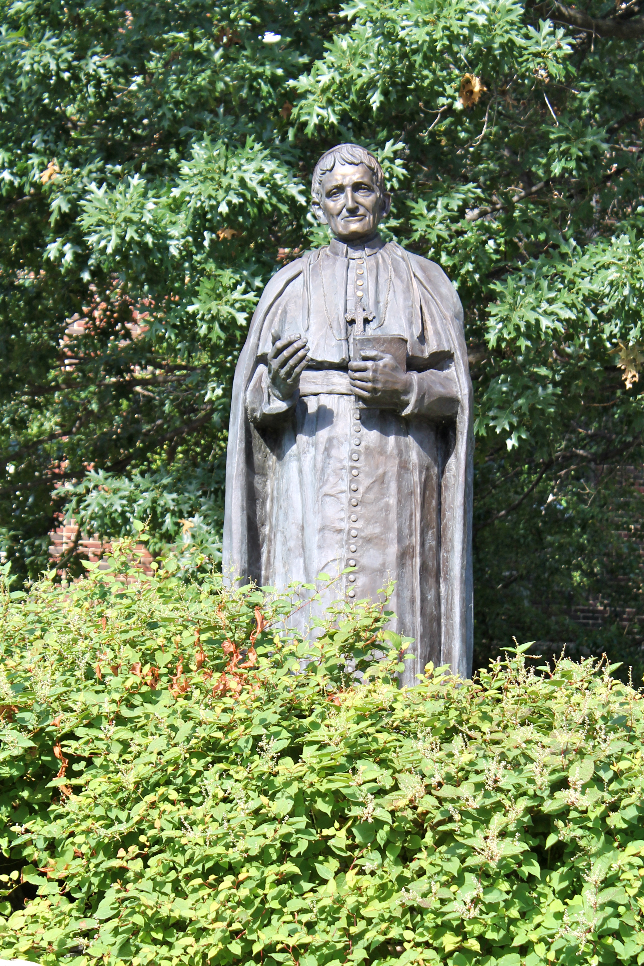 Stature of Cardinal Newman in front of Sacred Heart Hall